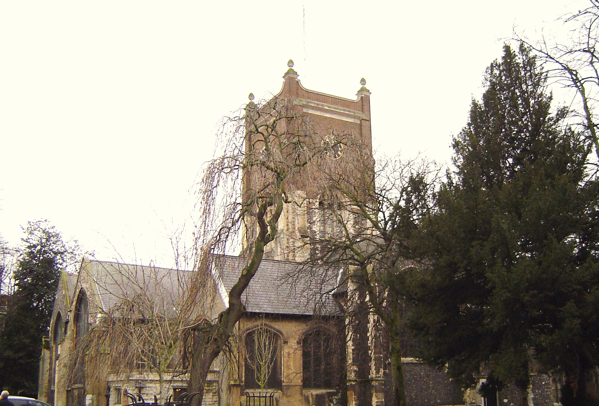 All Saints Church, Kingston upon Thames